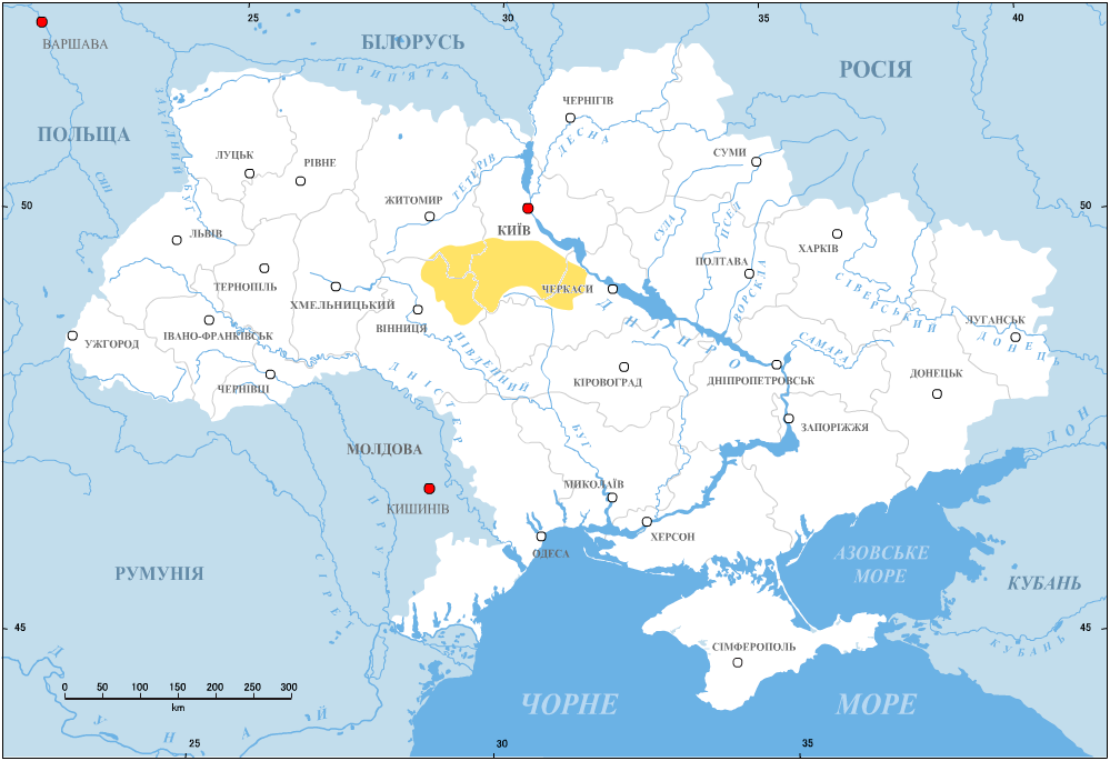 Nadrossia, region of Ukraine in the basin of river Ros. Dialects of this region are in the basis of classical Ukrainian language. Based on Ukraine.png and Ros basin.jpg.